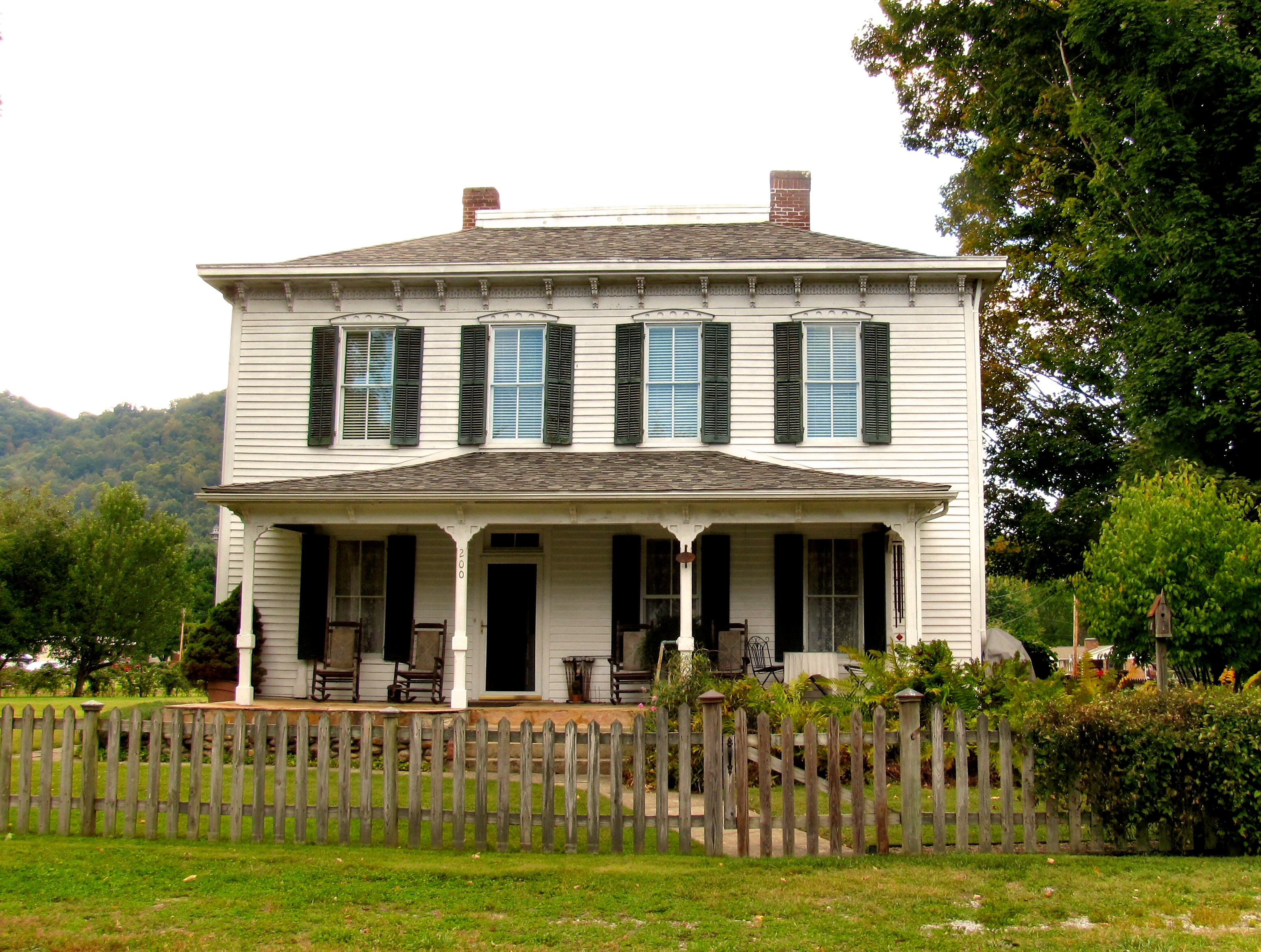 The John T. Wilder House in Roan Mountain, Tennessee, United States. Built in 1884, this house is listed on the National Register of Historic Places.